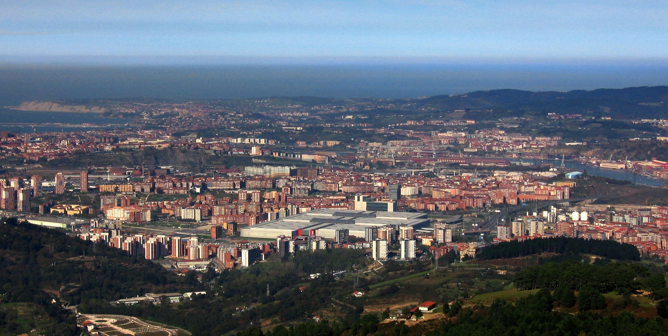 Barakaldo, a 100.000 inhabitants town near Bilbao (Biscay, Basque Country)